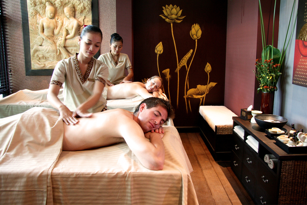 A specially created massage combining technique and aromatherapy oils. The essential oils are absorbed through the skin and carried to the muscle tissues, joints and organs to relieve tension and relax your mind.